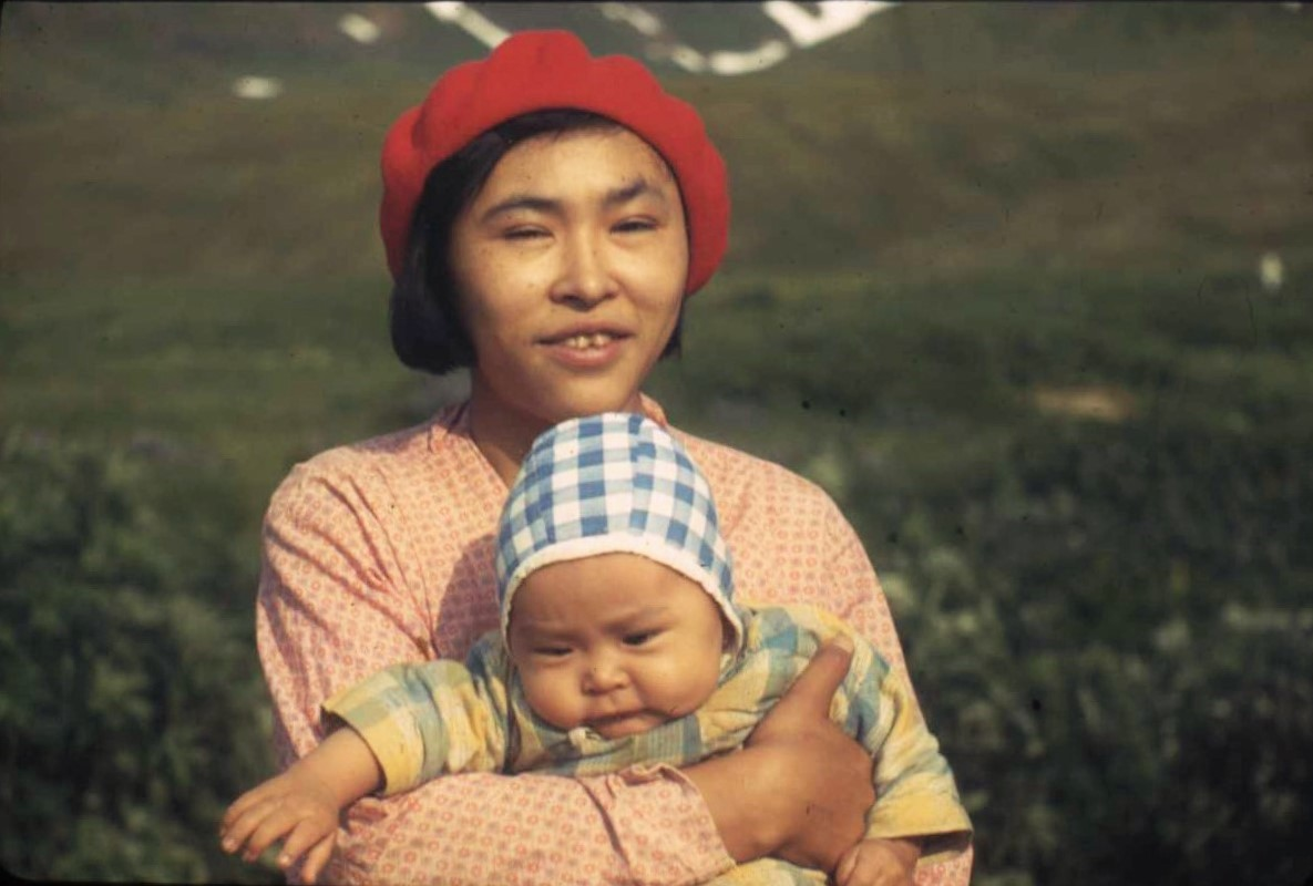 Aleut woman, Attu, 1941